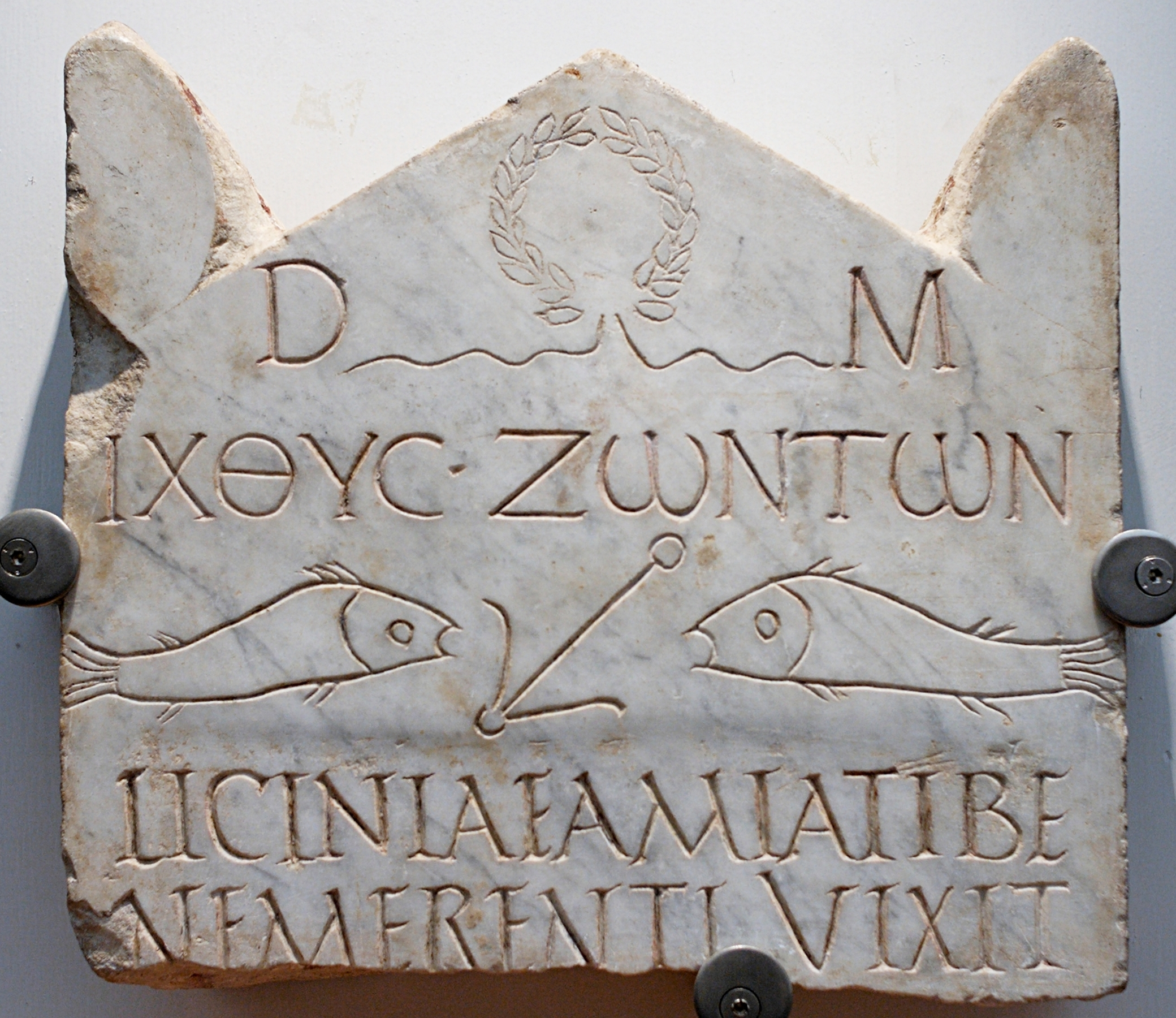 Funerary stele of Licinia Amias, one of the most ancient Christian inscriptions. Upper tier: dedication to the Dis Manibus and Christian motto in Greek letters ΙΧΘΥC ΖΩΝΤΩΝ / Ikhthus zōntōn ("fish of the living"); middle tier: depiction of fish and an anchor; lower tier: Latin inscription “LICINIAE AMIATI BE/NEMERENTI VIXIT” ("Licinia Amias well-deserving lived ..."). Marble, early 3rd century CE. From the area of the Vatican necropolis, Rome.